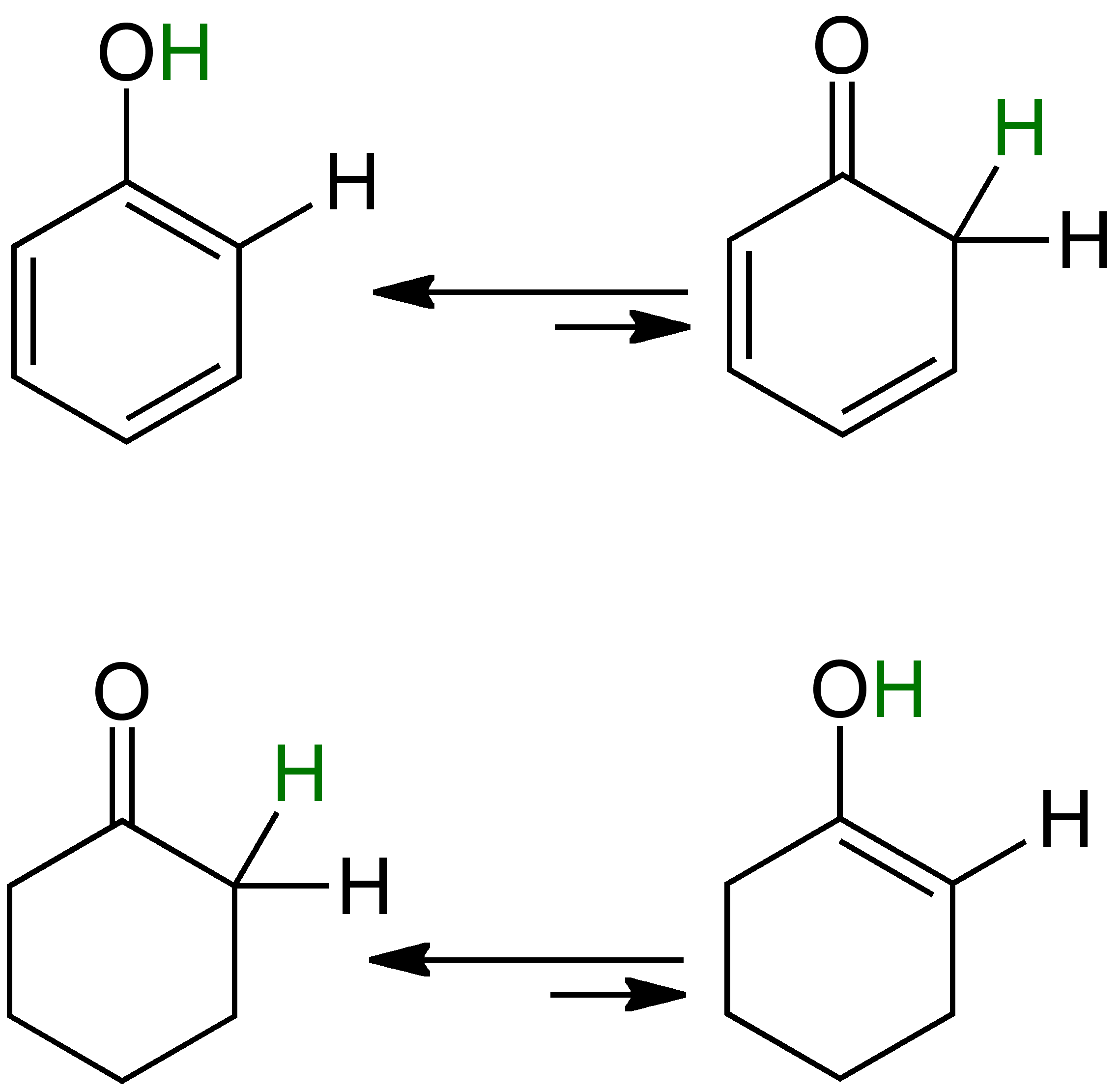 Tautomerism_Scheme Tautomerie